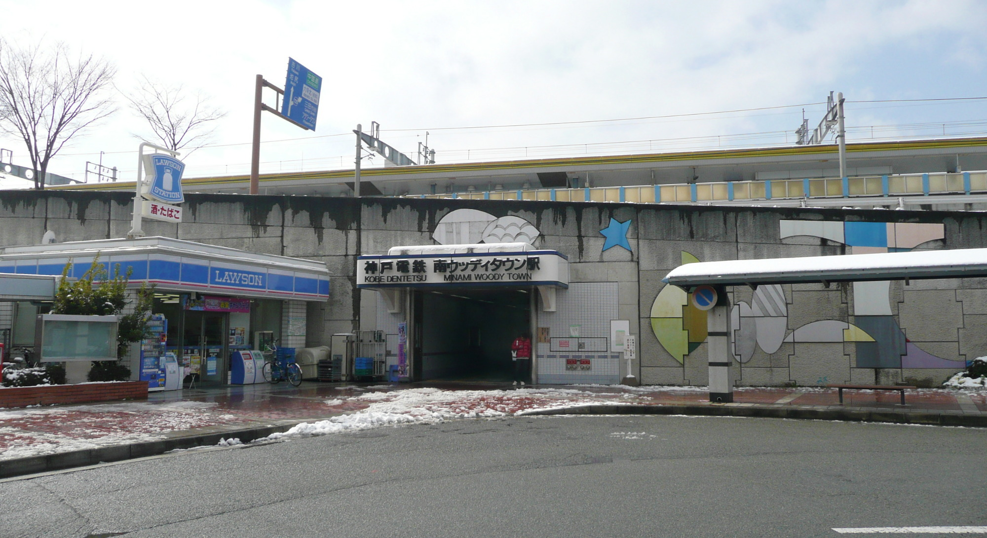 Kobe Electric Railway,Minami Woody Town Station east entrance. / 神戸電鉄公園都市線南ウッディタウン駅東口